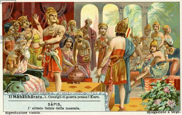 Description Mahabharata, Sanskrit epic poem. War council at Kuru. Liebig collectors' card 1931 S1247 (F1246) Photo credit Lebrecht History / Bridgeman Images Keywords 20th century / religious / drawing / indian / hinduism / hindu / drawings / poetry / poem / india / illustrations / twentieth century / literary arts / literature / history / religion / illustration